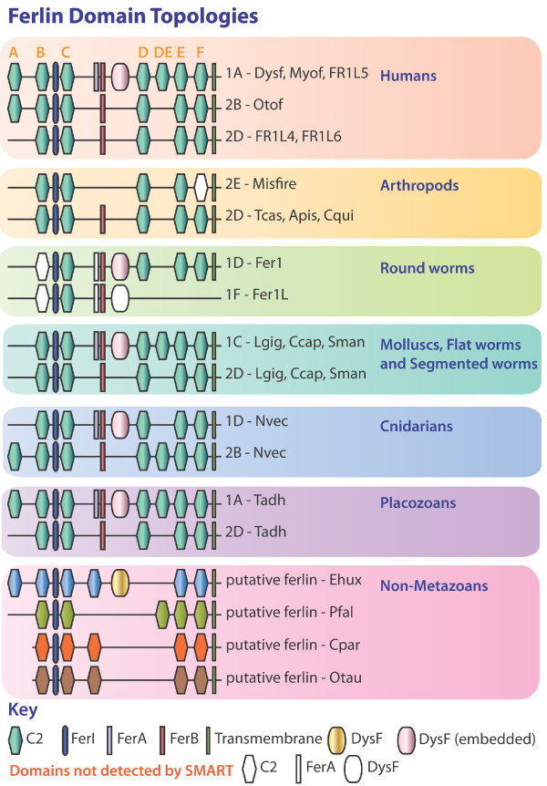 Topologies observed in ferlins.